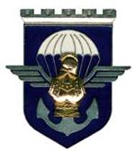 Regimental badge 17th Parachute Engineer Regiment.